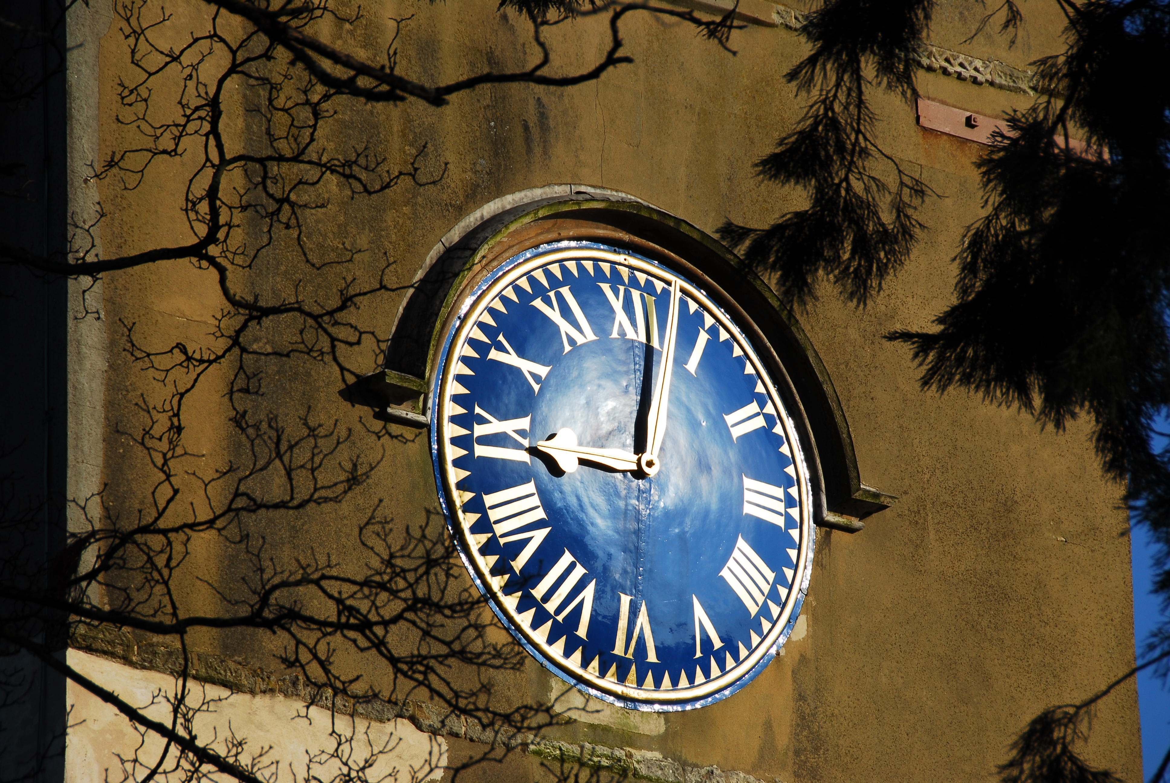 Clock of Church of St Lawrence, Alton